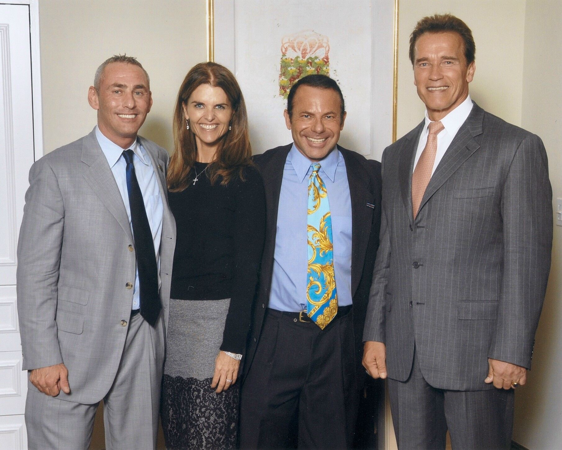 The Schwarzeneggers and the Nortes at the Bel Aire Hotel in the Fall of 2006